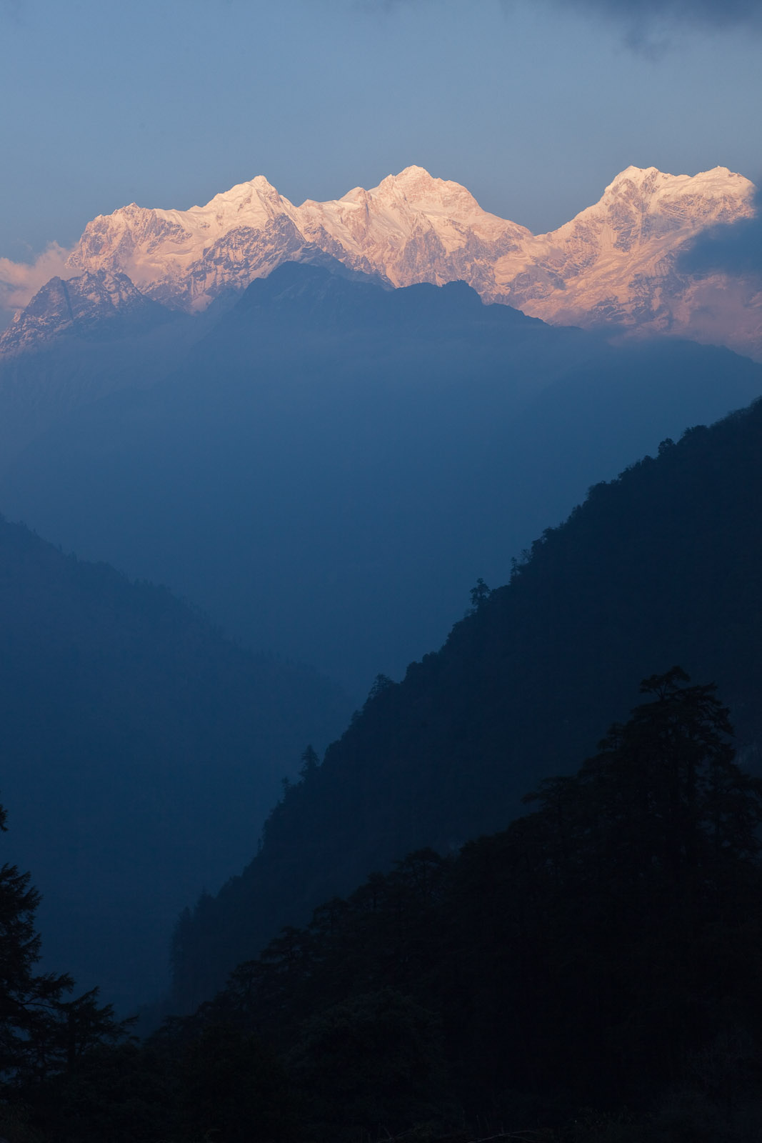 Manaslu